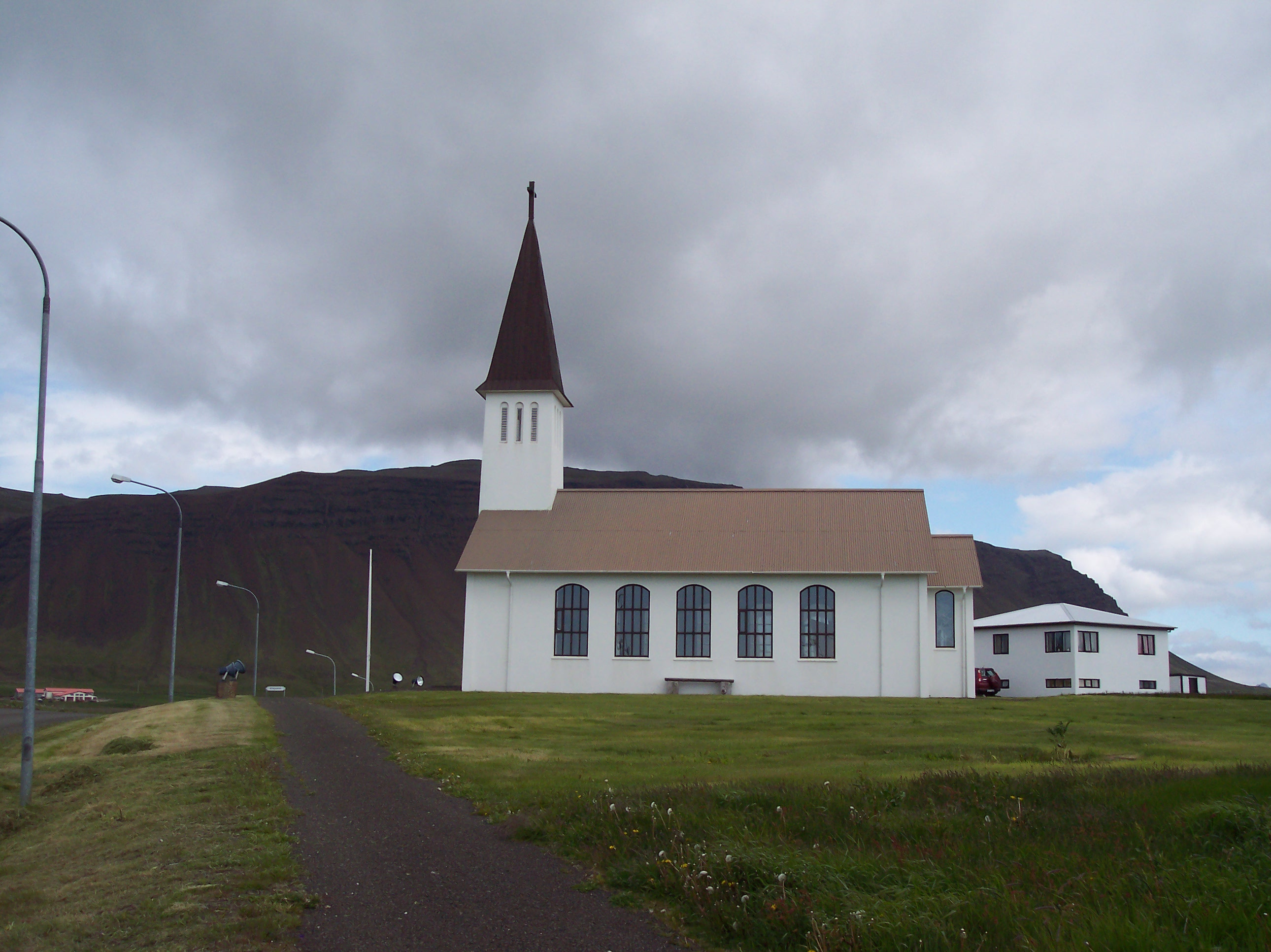 The church at Reykhólar, Reykhólahreppur, Iceland